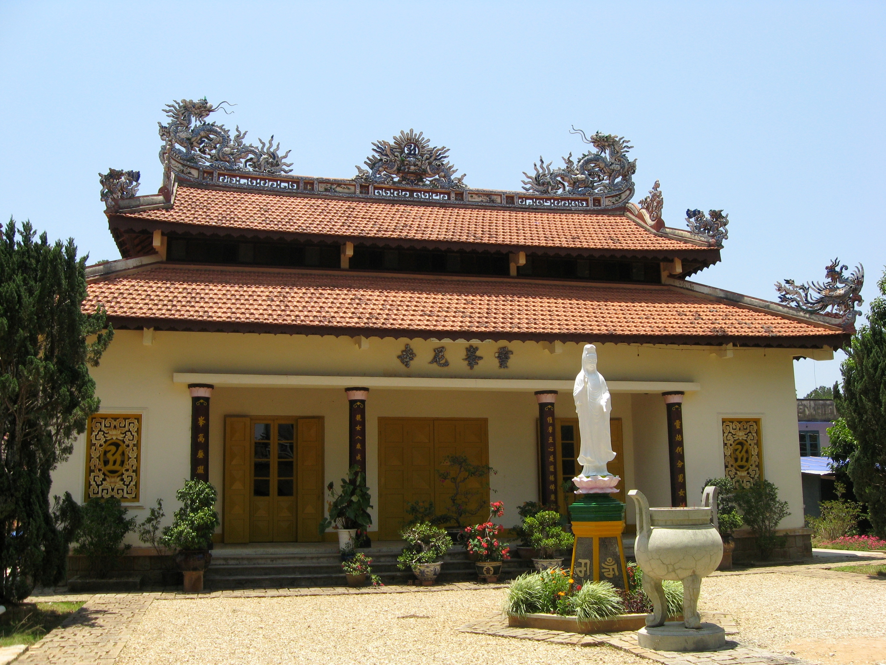 Linh Phong Pagoda